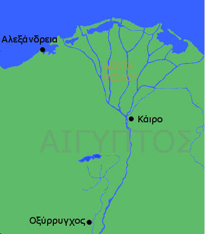 Map of the location of Oxyrhynchos